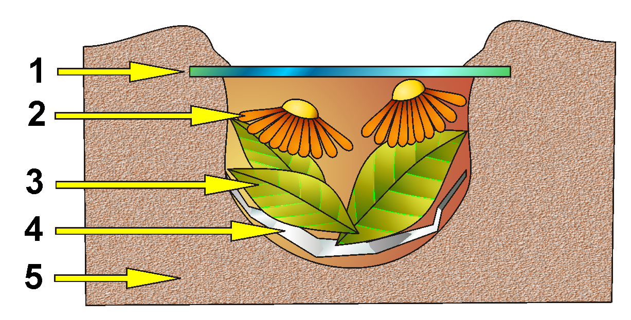 polish children creative play Widoczek(scape) - scheme